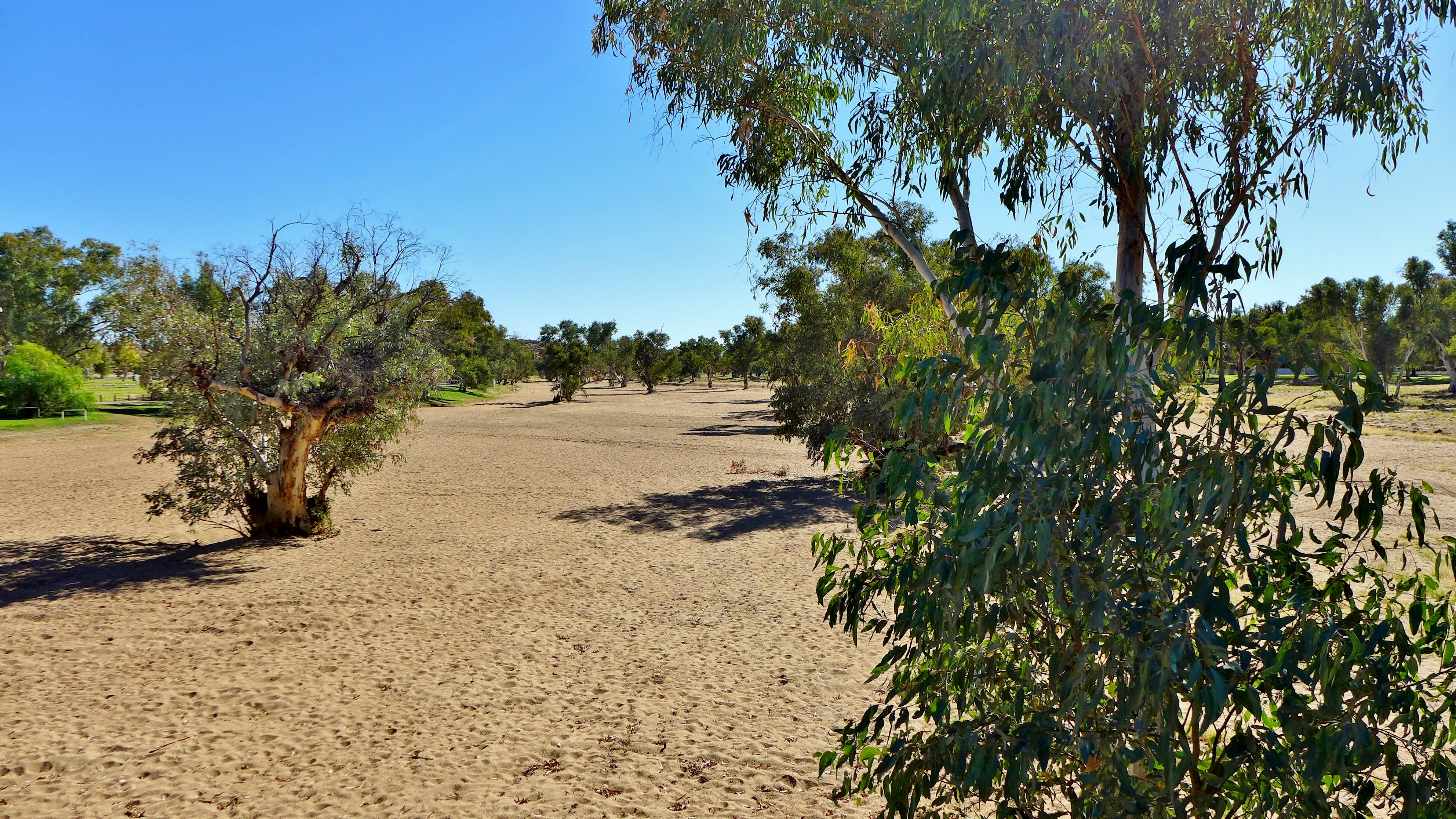 View of the Todd River at Alice Springs, NT, Australia. This photo was taken from the pedestrian footbridge adjacent to Undoolya Road.